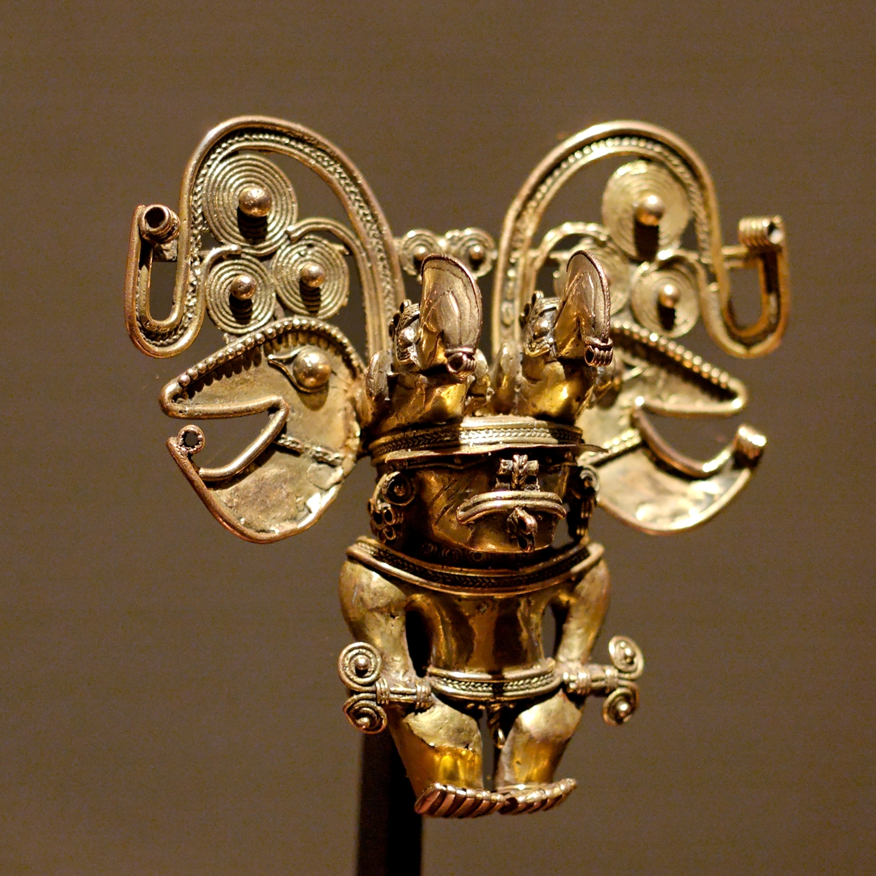 Anthropomorphical pendant of the Tairona people, representing a shaman holding two sceptres, wearing a large nasal ornament and a high headgear with two toucans. Lost-wax cast gold with false filigree decoration, 10th-15th century, Colombia.